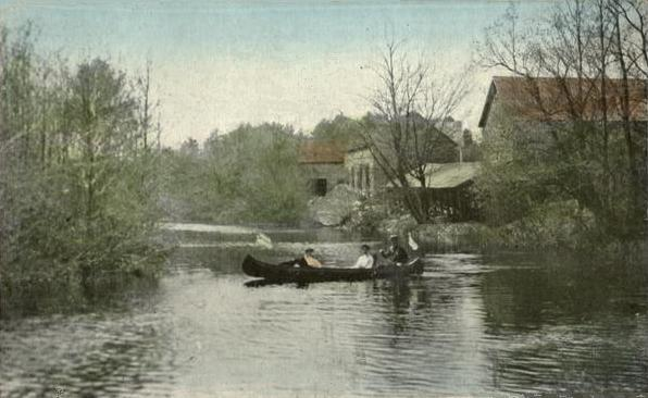 Exeter River at Sand Hill, Fremont, NH; from a 1913 postcard published by the Frank W. Swallow Post Card Company of Exeter, New Hampshire.